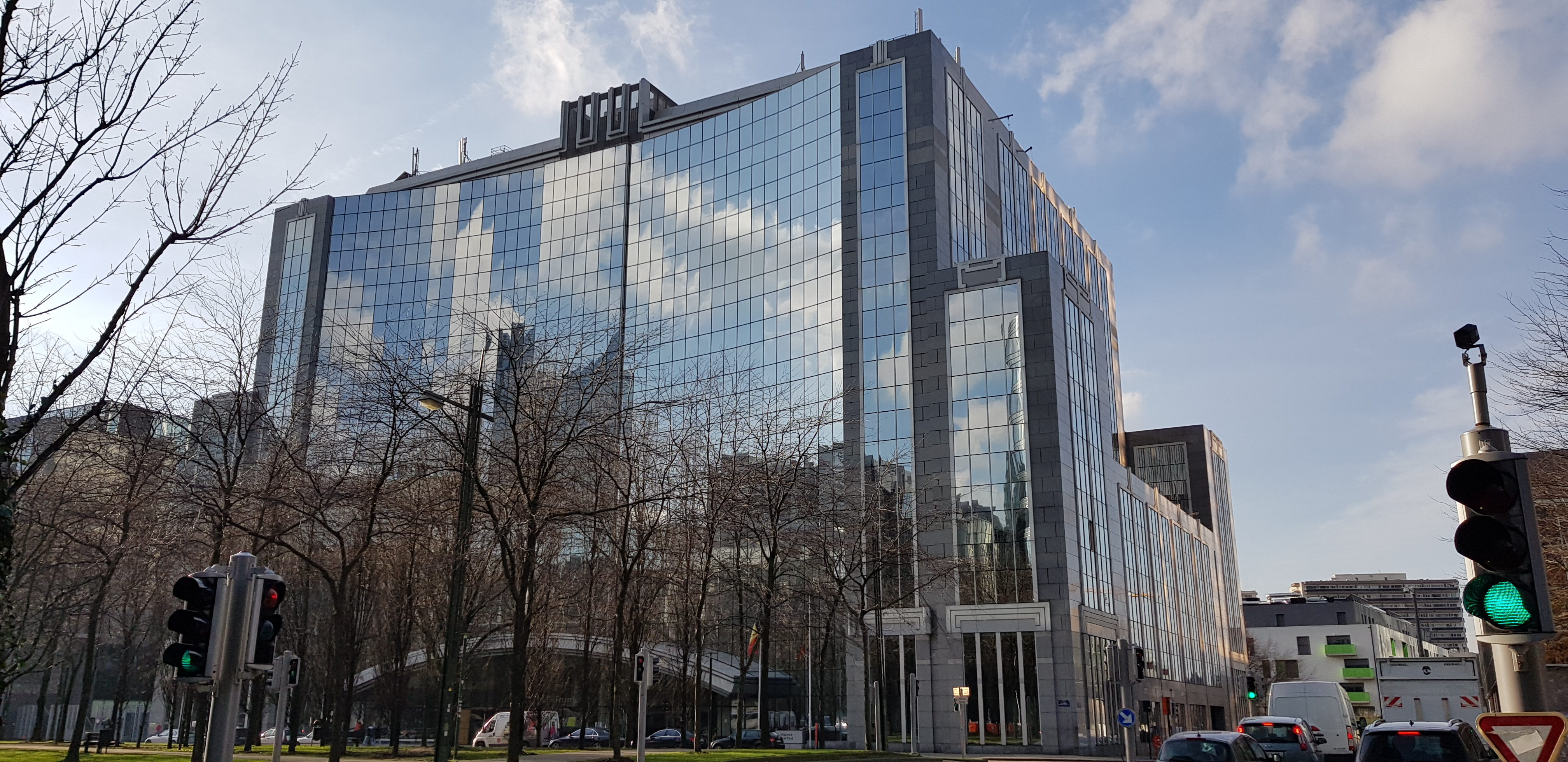 Graaf de Ferraris building, Brussels, Belgium